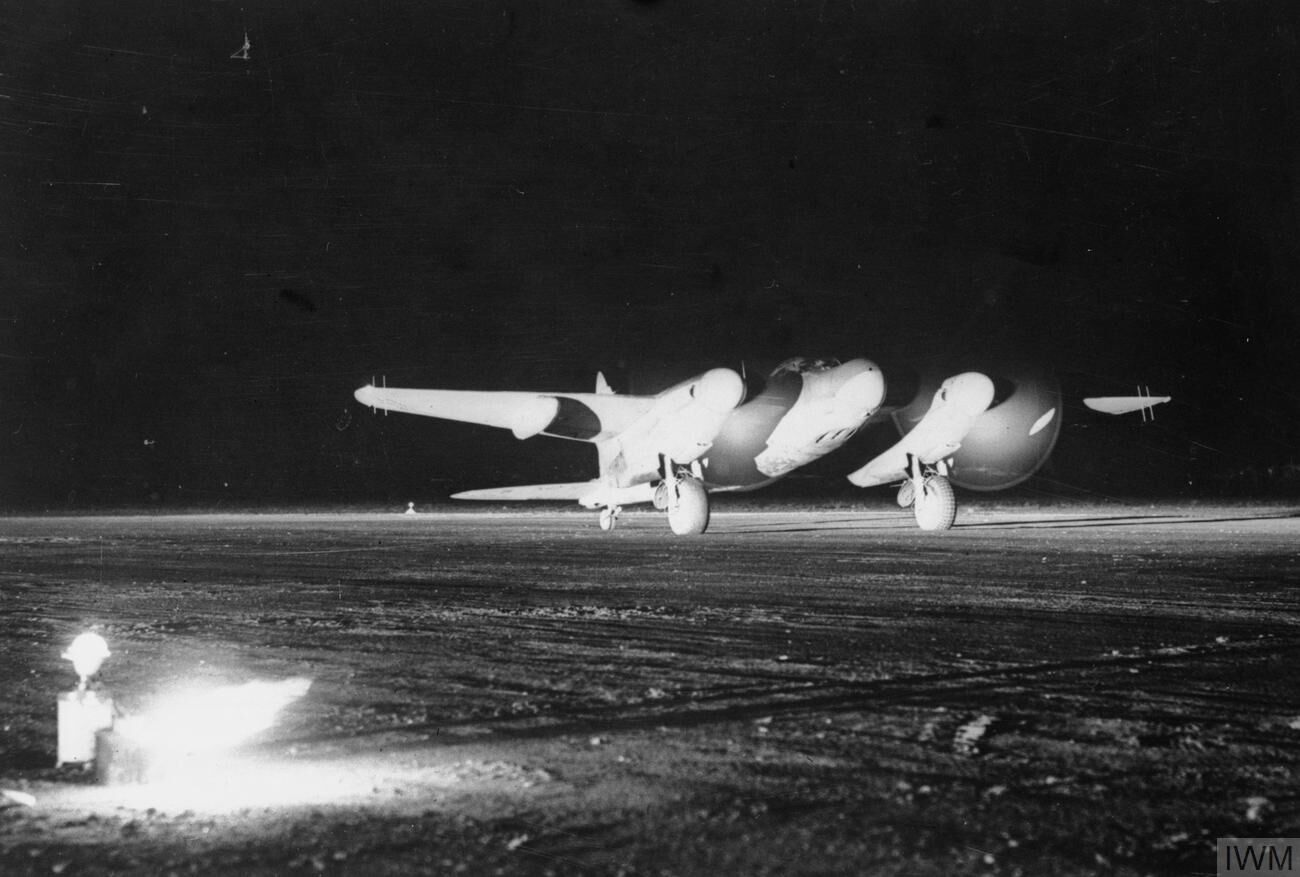 A de Havilland Mosquito NF Mark XIII of No. 256 Squadron RAF, caught in the beam of a Chance light on the main runway at Foggia Main, Italy, before taking off on a night intruder sortie over enemy territory.